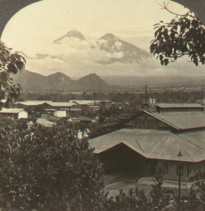 Esquintla, Guatemala. One side of stereo card view, c. 1902